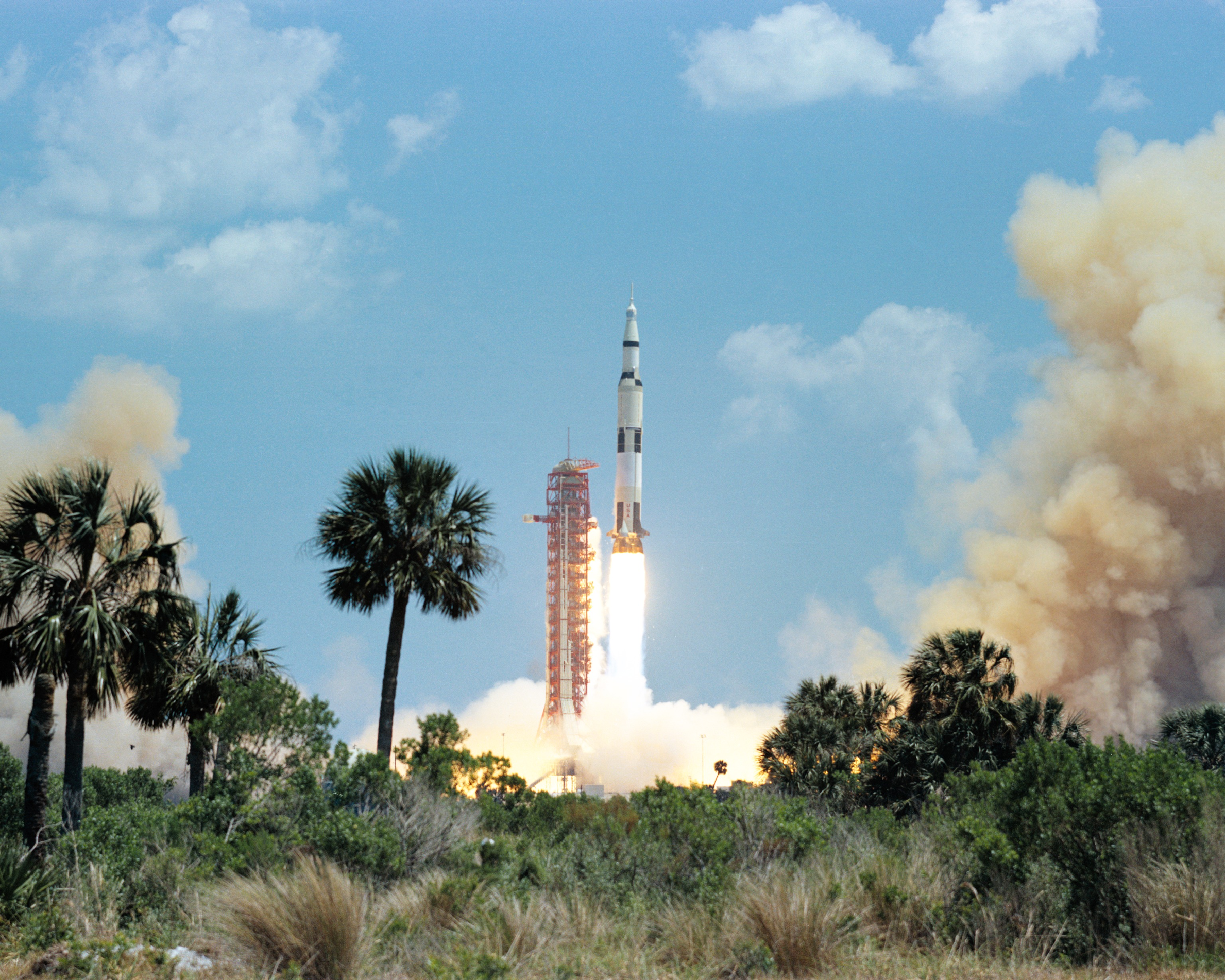 Apollo 16 launch